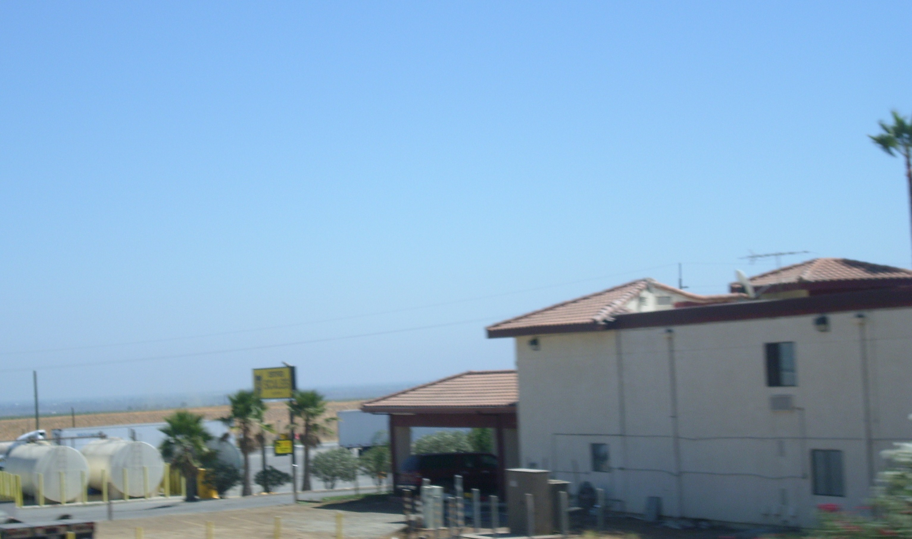 Westley California, view from the freeway